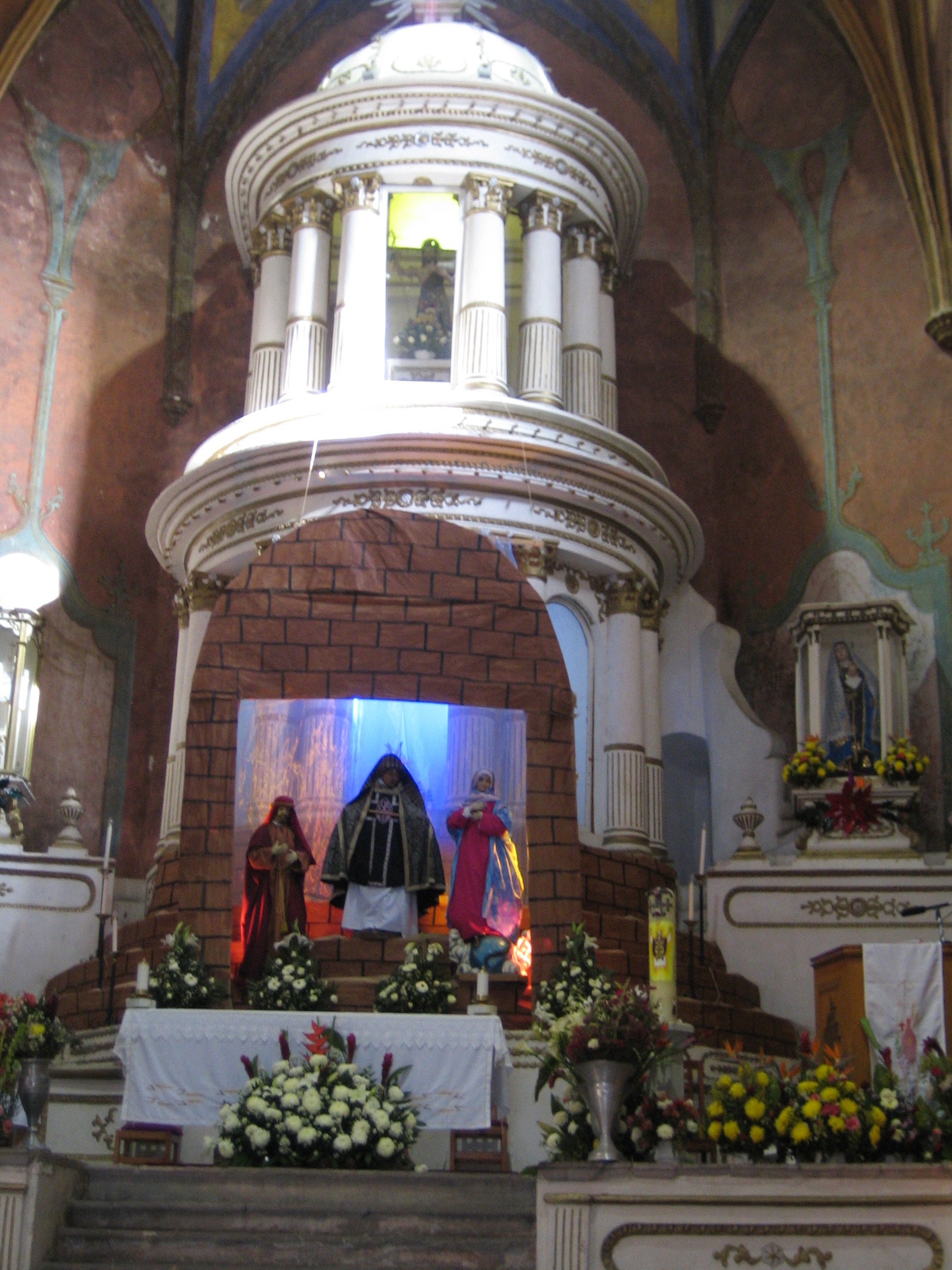 Yecapixtla San Juan Bautista